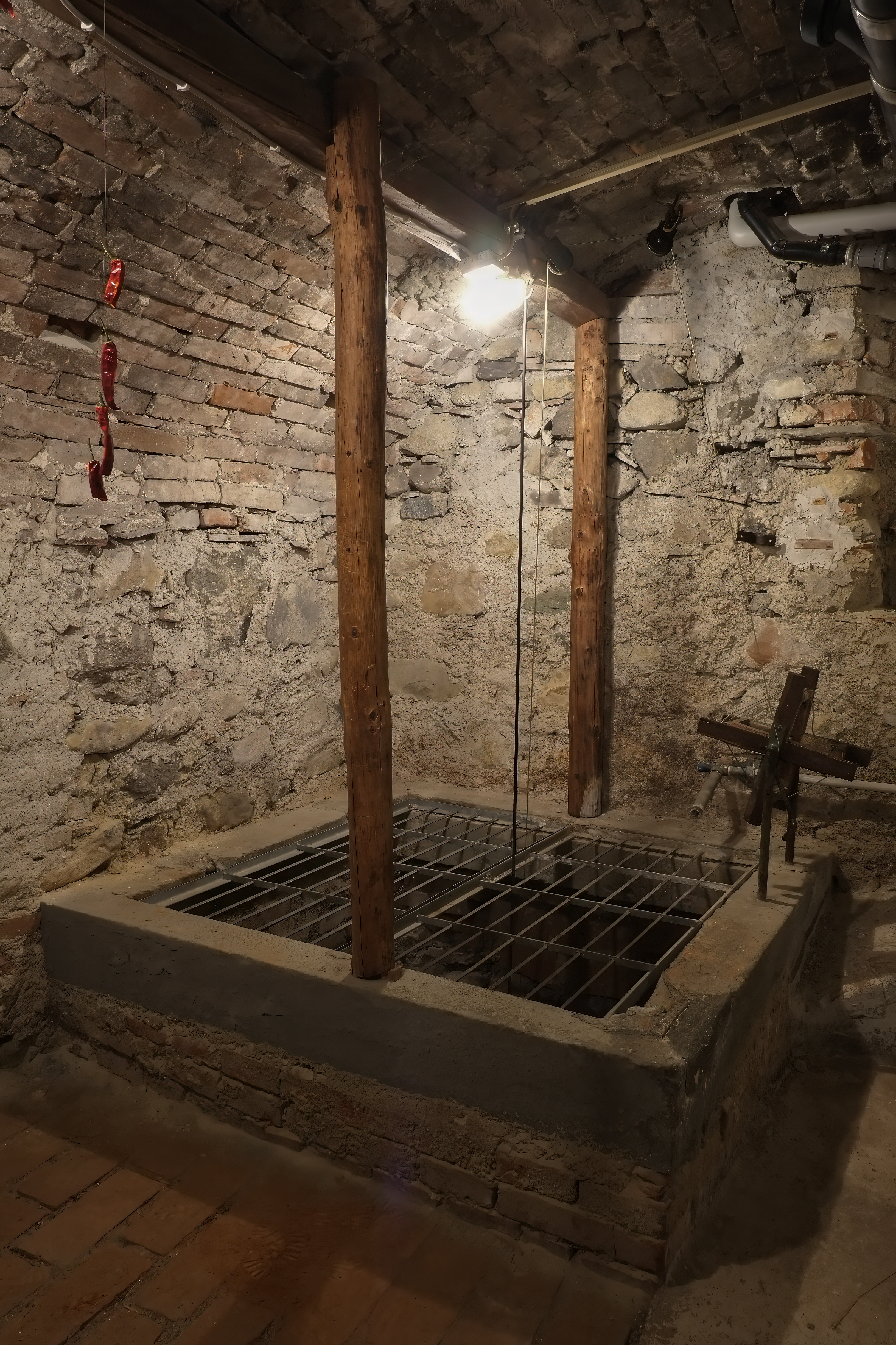 Well of the demolished castle Neue Burg, Friedrichshafen-Raderach, Baden-Württemberg, Germany